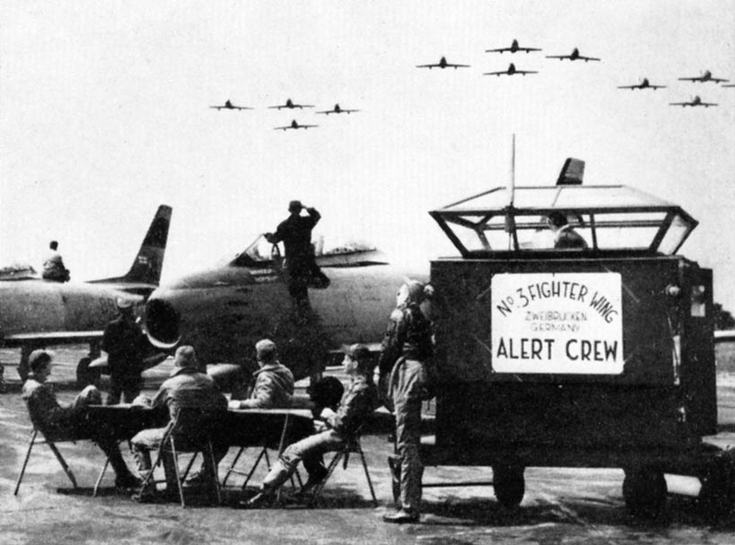 Alert crew at No. 3 Fighter Wing (Royal Canadian Air Force), Zweibrücken, Germany waits to scramble as Sabres fly overhead.